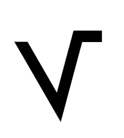 Astrological symbol of the Vulcan planet (according to Harry Ezekiel Wedeck, Dictionary of astrology, vol. I, p. XXII, Citadel Press, 1973)